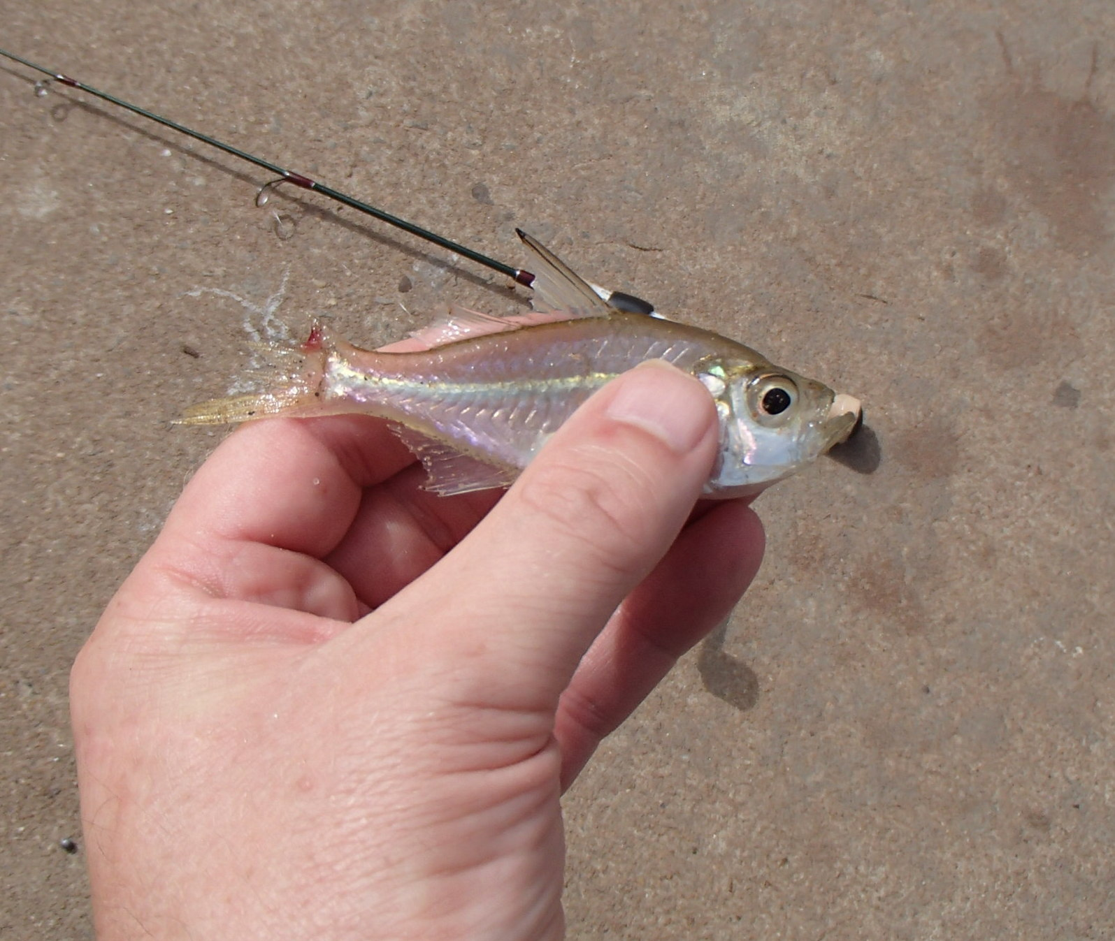 Rhabdamia gracilis Luminous cardinalfish caught in Negombo Sri Lanka